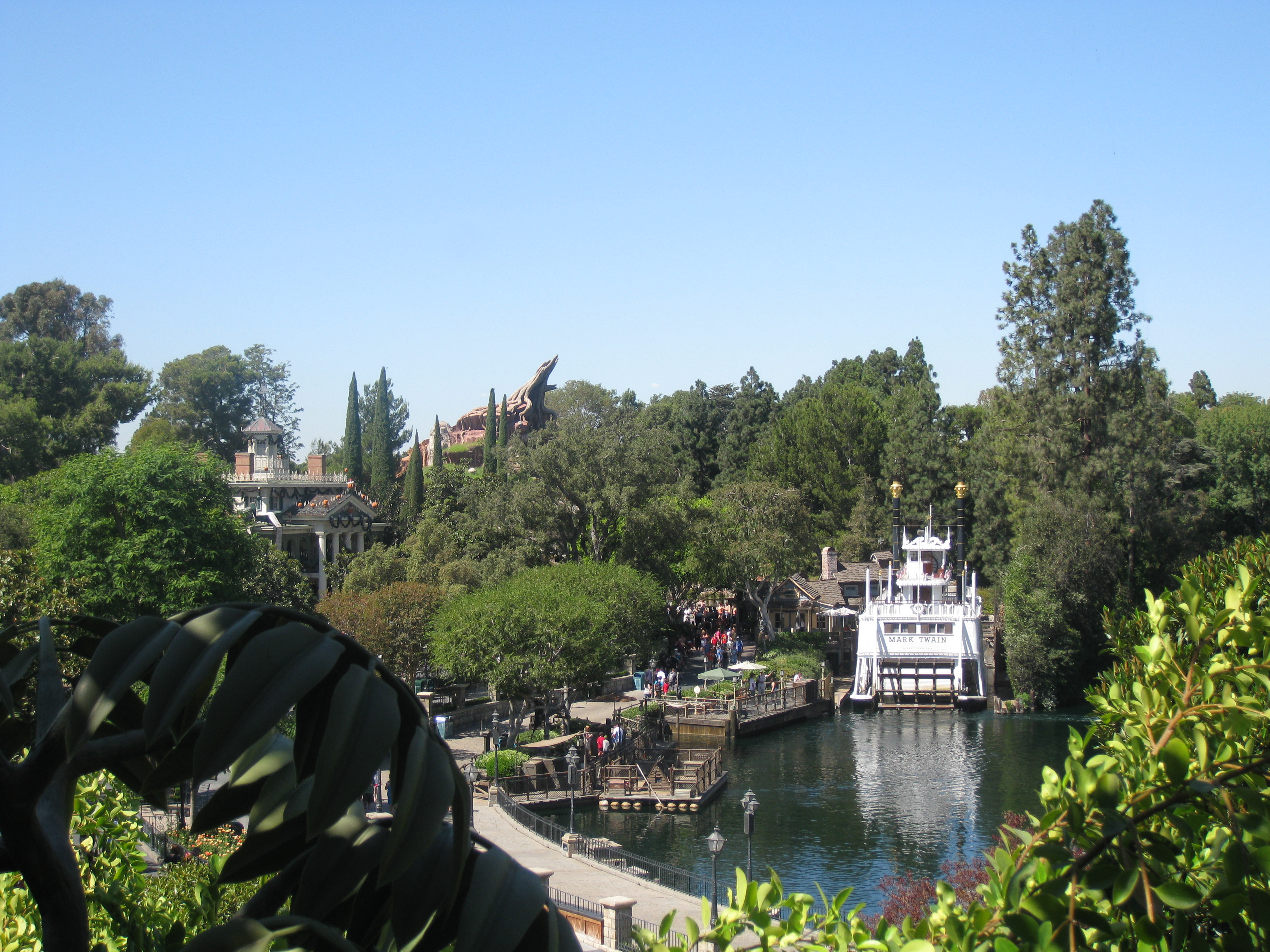 Adventureland at Disneyland